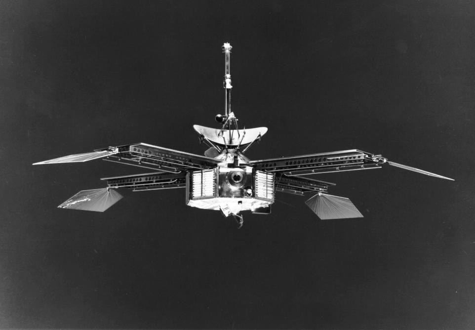 Mariner 4.